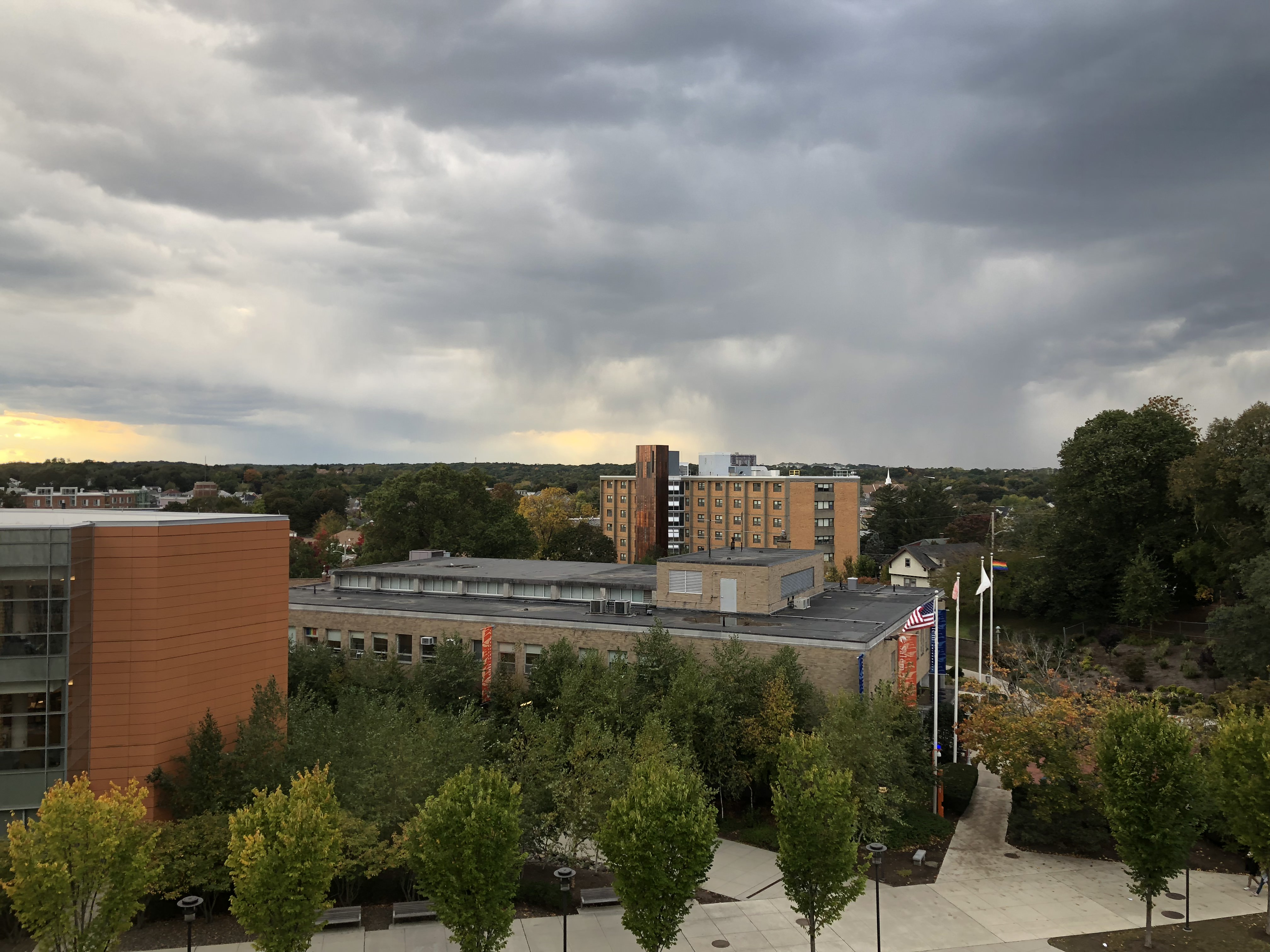 View of Salem State North Campus from Meier Hall, with the Library on the left, library quad and Ellison Campus Center in the foreground, and Bowditch Hall in the back, October 17, 2018.